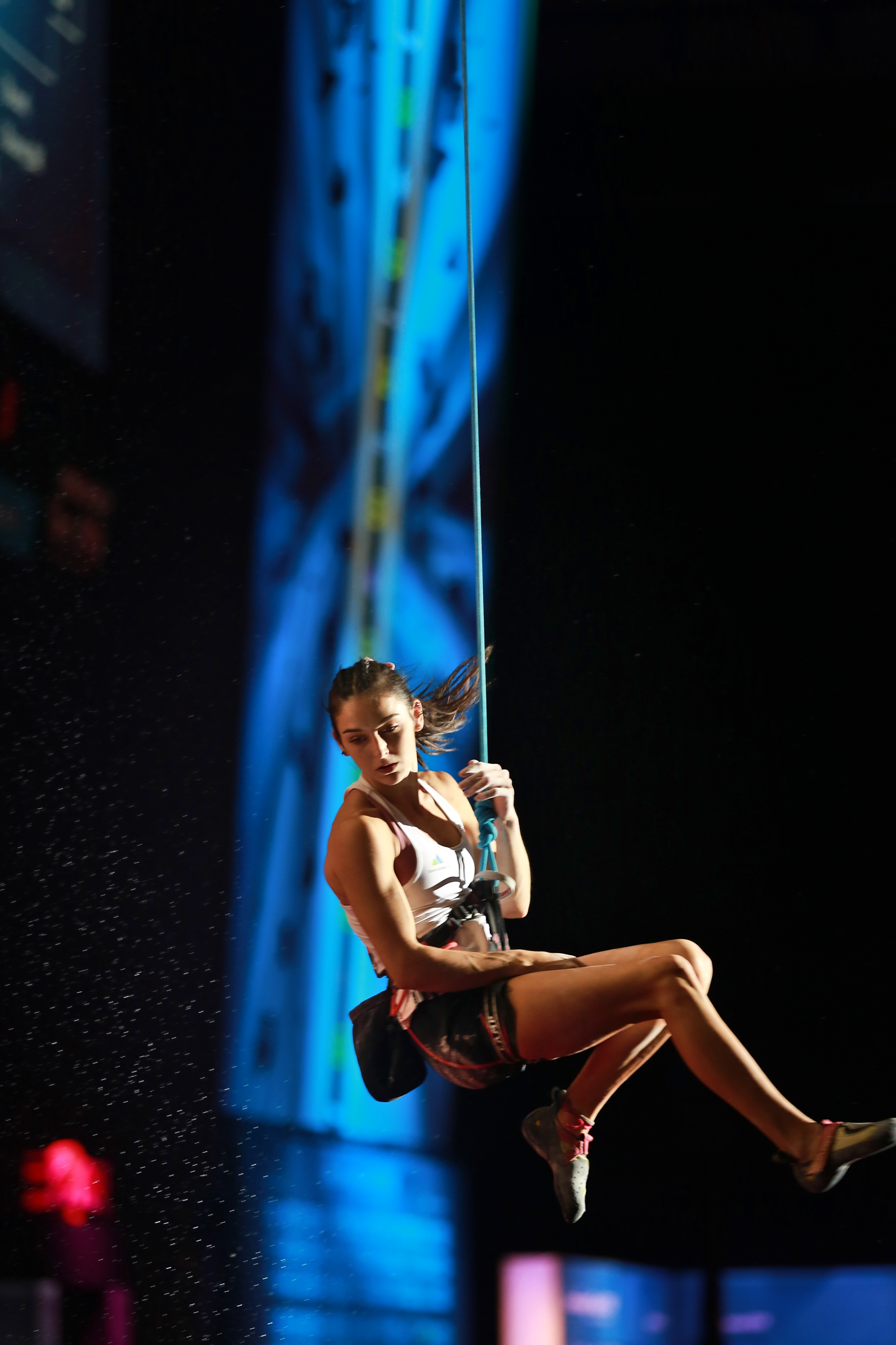 Climbing World Championships 2018 Lead Final Krampl